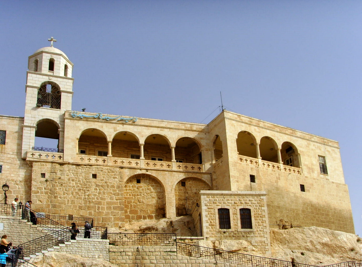 Holy Patriarchal Convent of Our Lady of Saidnaya